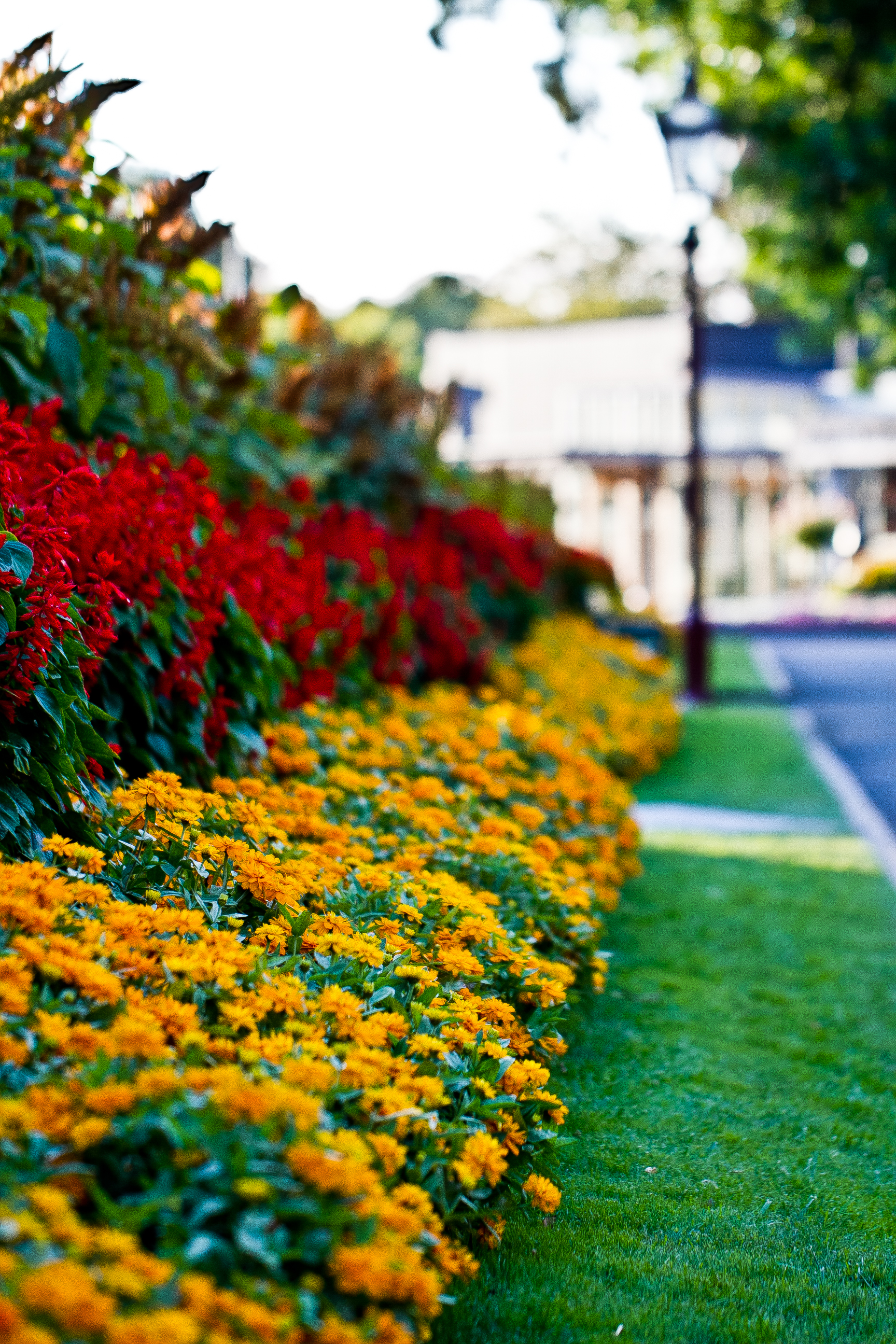 A view of Ballarat botanical garden